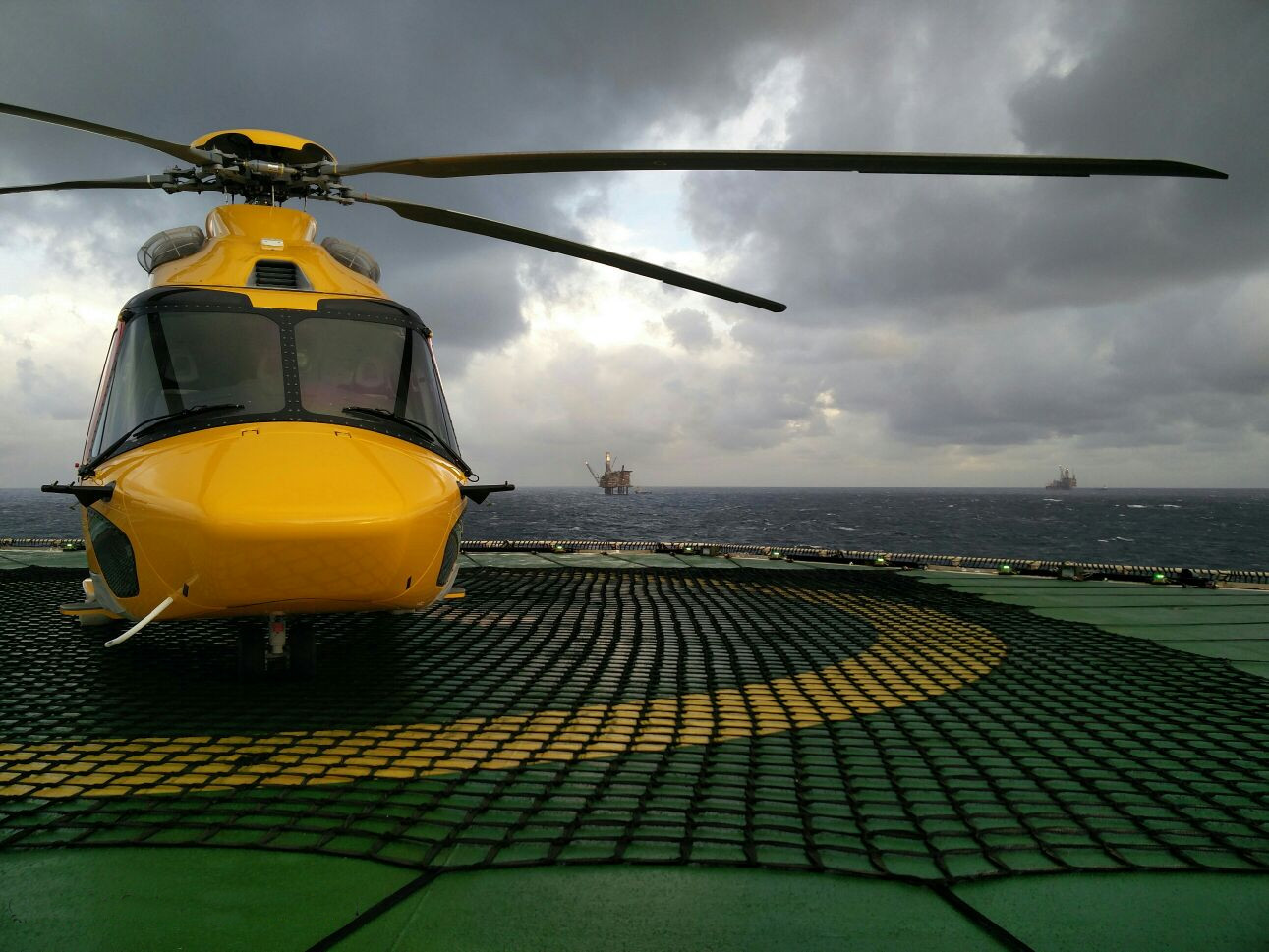 The H175 during offshore operations from Aberdeen